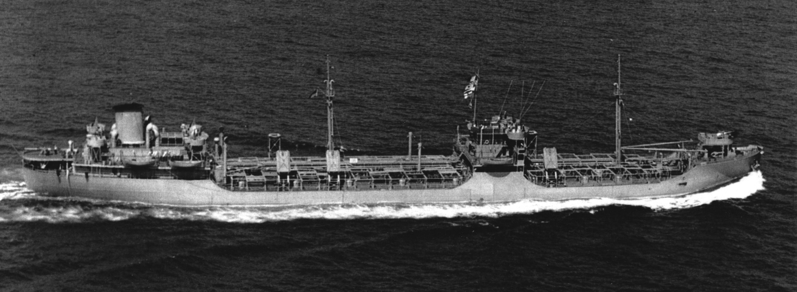 The U.S. Type T2-SE-A1 tanker Hat Creek underway at sea on 16 August 1943.